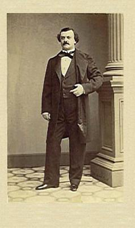 Pasquale Brignoli (Pasquilino Brignoli) [1] (b. Naples, Italy, 1824; d. New York City, 30 October, 1884) was an Italian-born American tenor.